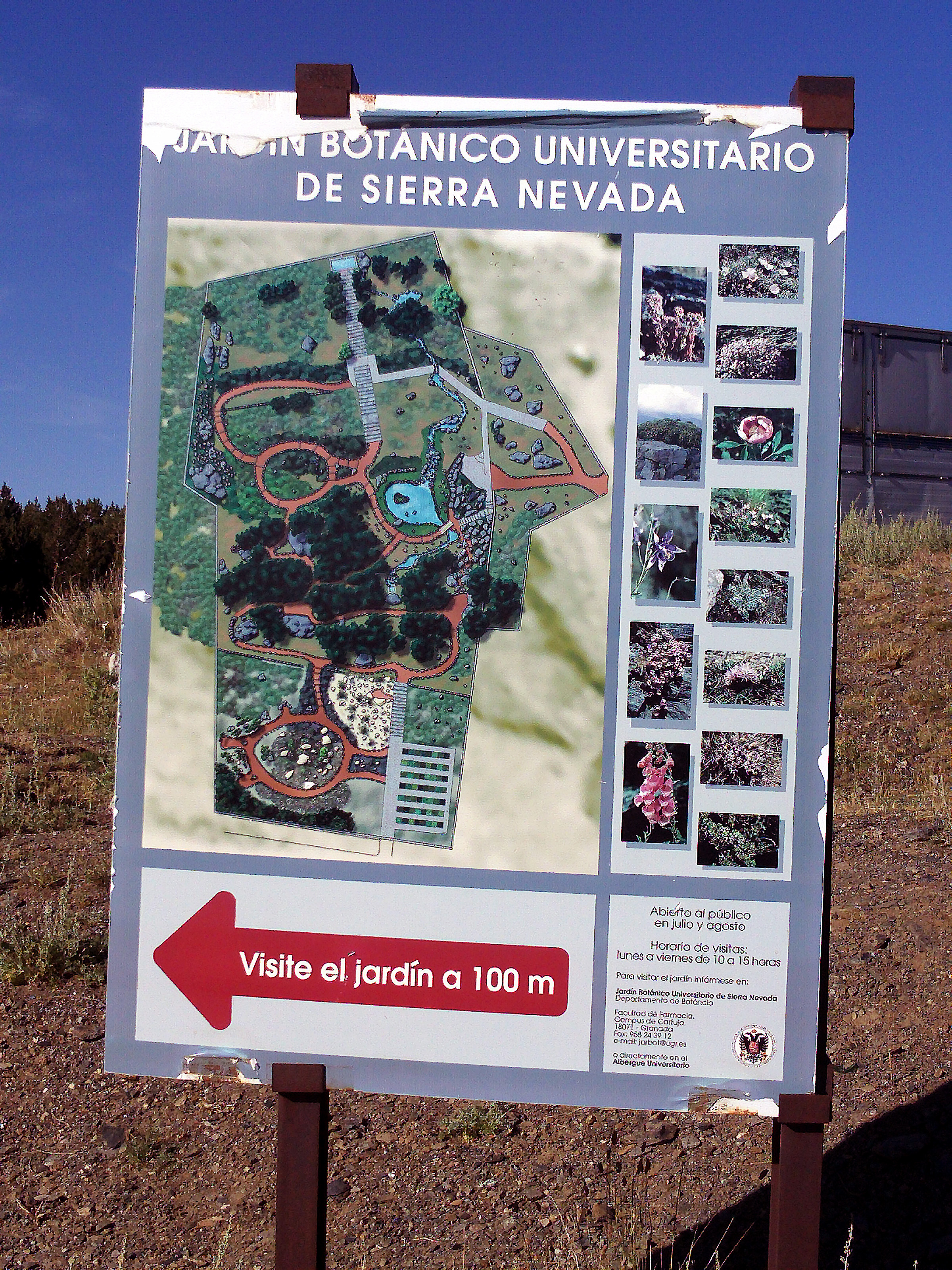 Info post of Jardin Botanico de Endemismos de Sierra Nevada, Spain